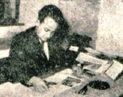 Ivan Ivanji (1929-), Serbian writer